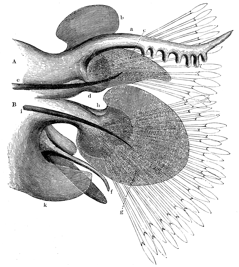 Parapodium of the polychaete worm Platynereis pulchella.